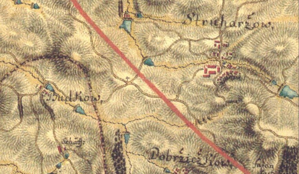 Historical military map of Struharov and surrounding villages, ordered by Joseph II., 1765